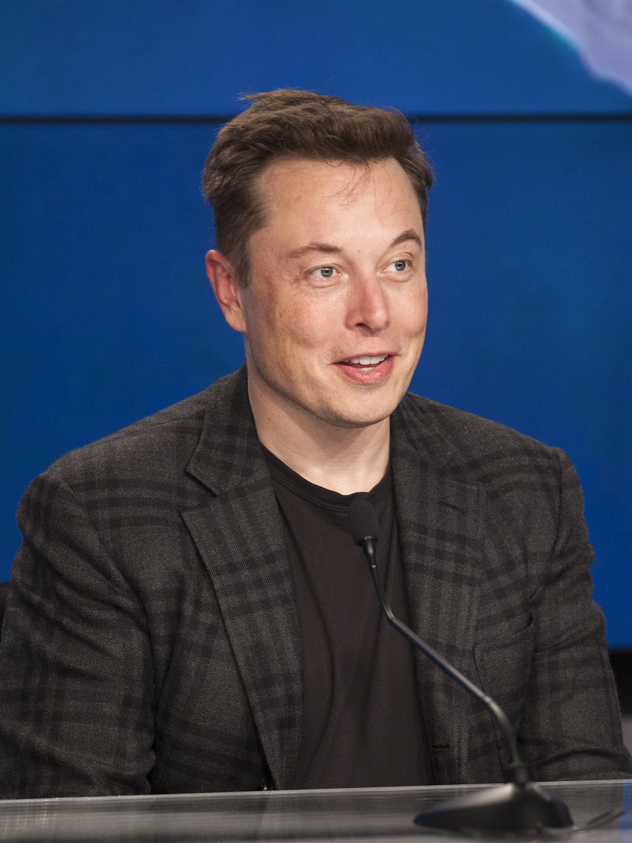 In the Press Site auditorium of NASA's Kennedy Space Center in Florida, Elon Musk, SpaceX chief executive officer and lead designer, speaks to the media at a post-launch news conference following the liftoff of SpaceX CRS-8, a commercial resupply services mission to the International Space Station, or ISS. SpaceX CRS-8 lifted off atop a Falcon 9 rocket from Space Launch Complex 40 at Cape Canaveral Air Force Station at 4:43 p.m. EDT. Photo credit: NASA/Kim Shiflett